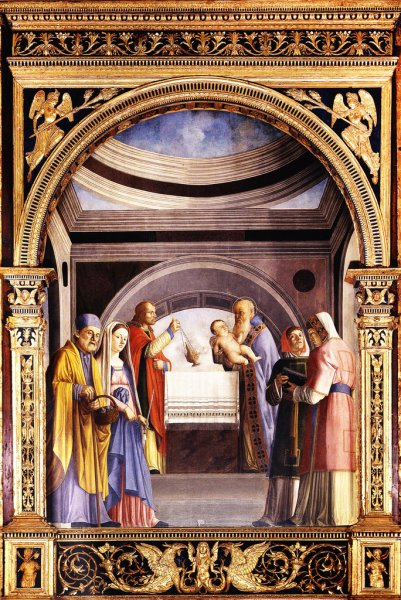 Presentation at the Temple